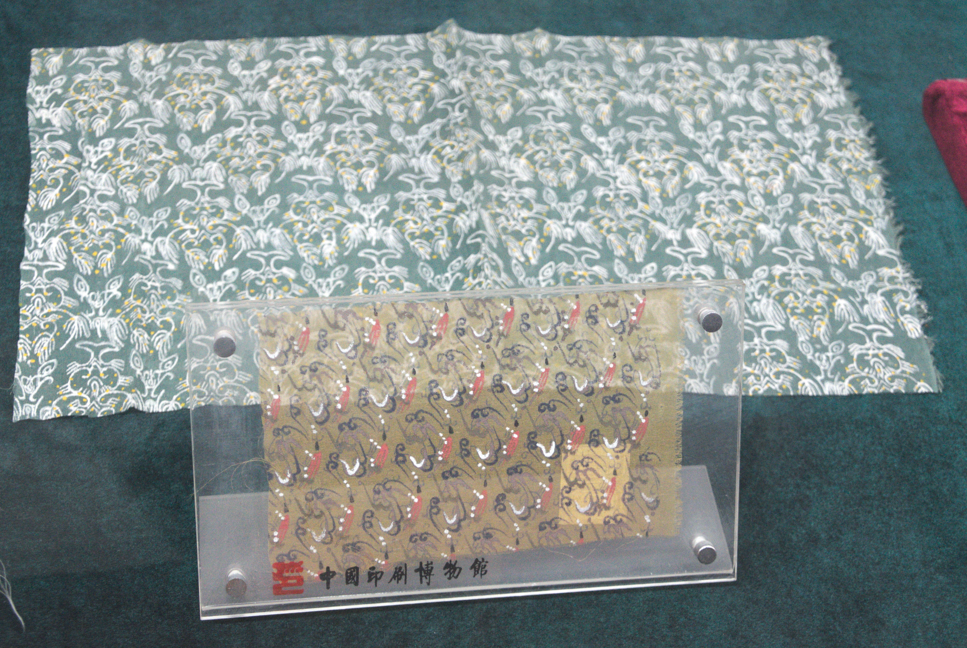 Piece of textile with printed pattern and hand drawn motifs. Found in Mawangdui tomb, at Changsha, Hunan province. B.C. 2th century avant notre ère.